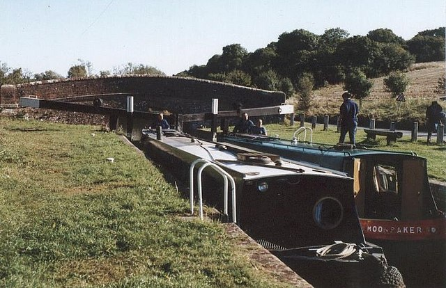 Oakhill Down Lock - No.68 - Kennet & Avon Canal